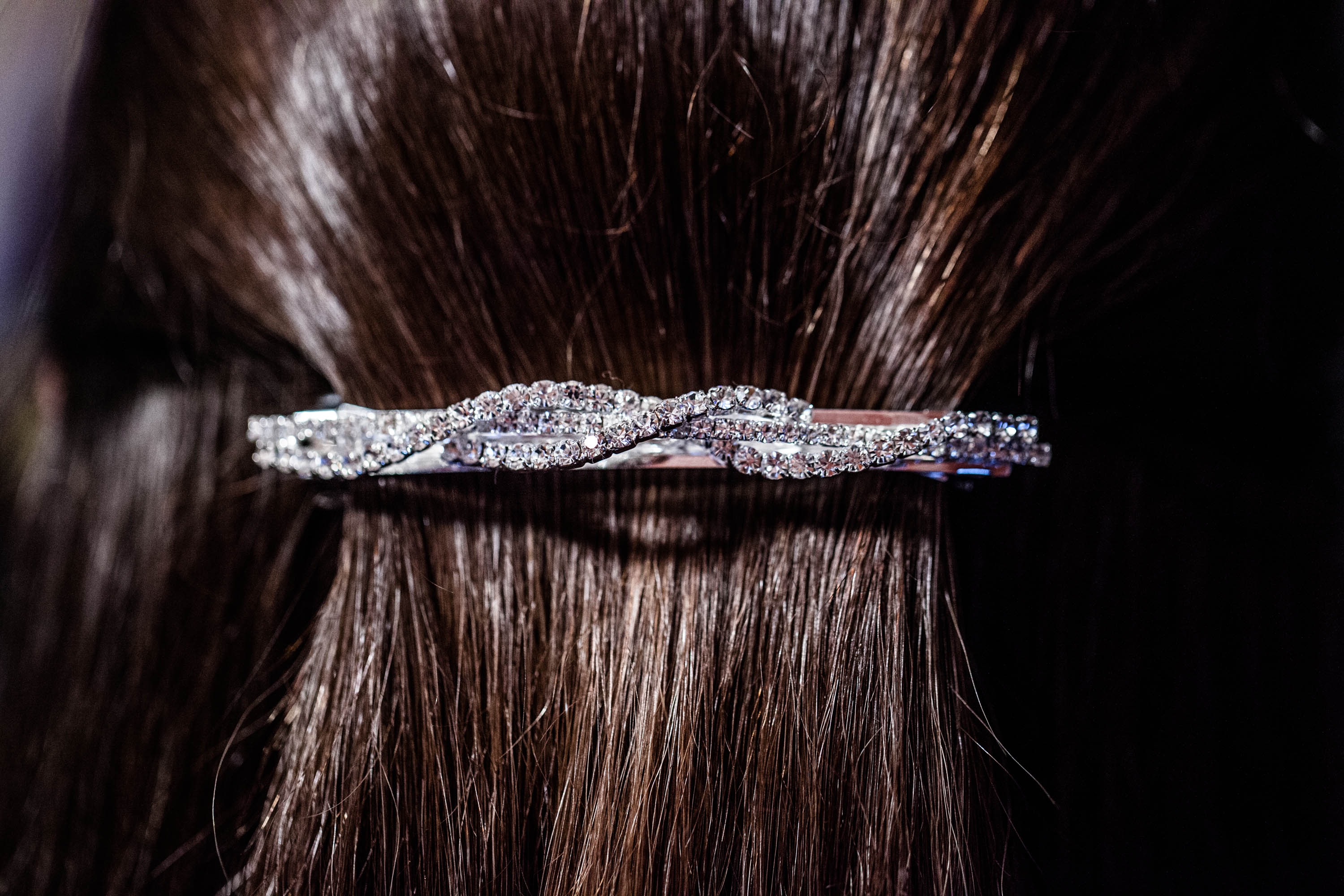 a typical hair barrette